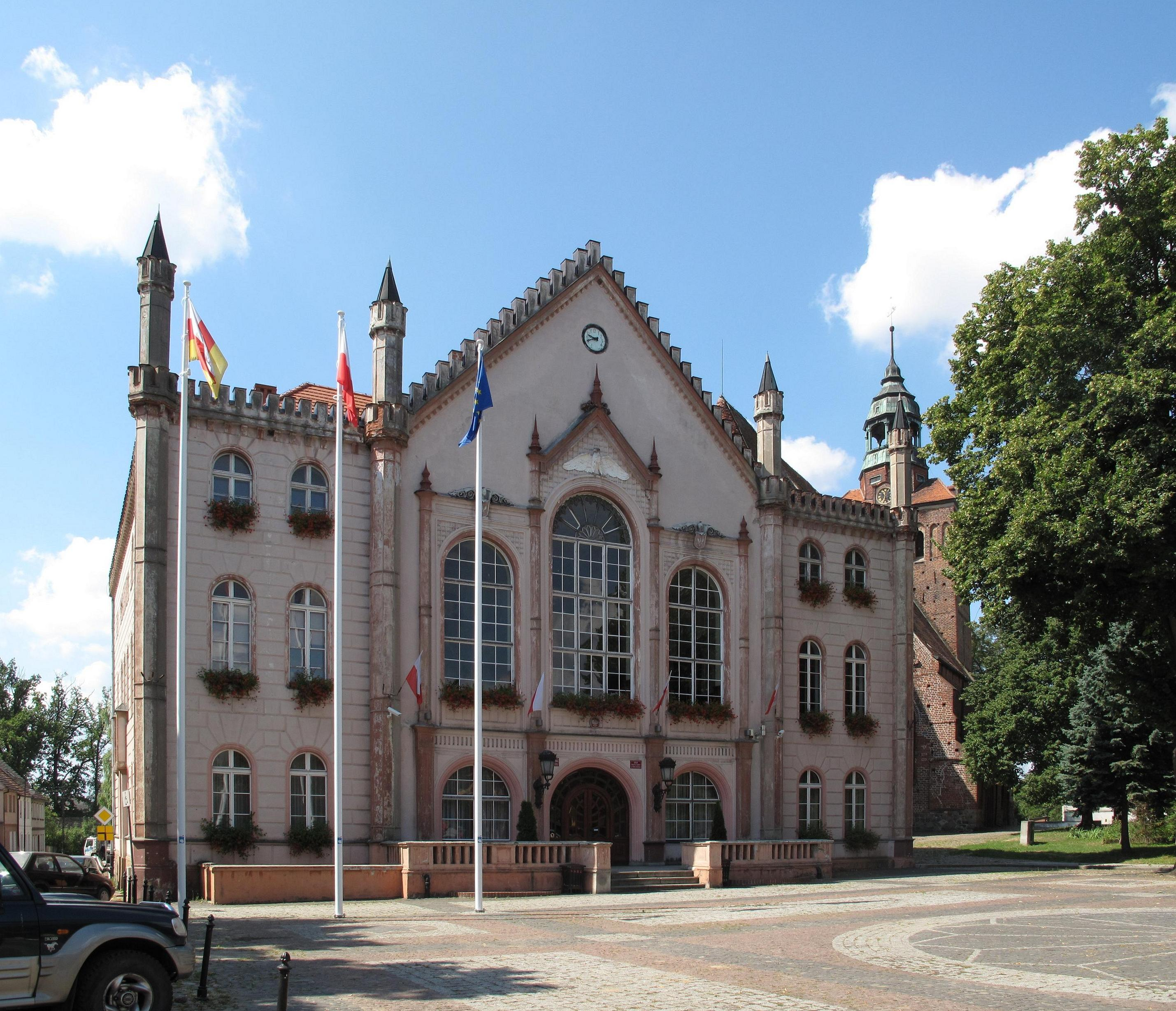 Gothic Revival city hall in Ośno Lubuskie, built 1841–1844 according to plans by the government architect Emil Flaminius. Ośno Lubuskie (german:Drossen)) is a town in Lubusz Voivodeship, Poland, with 3,800 inhabitants (2008).